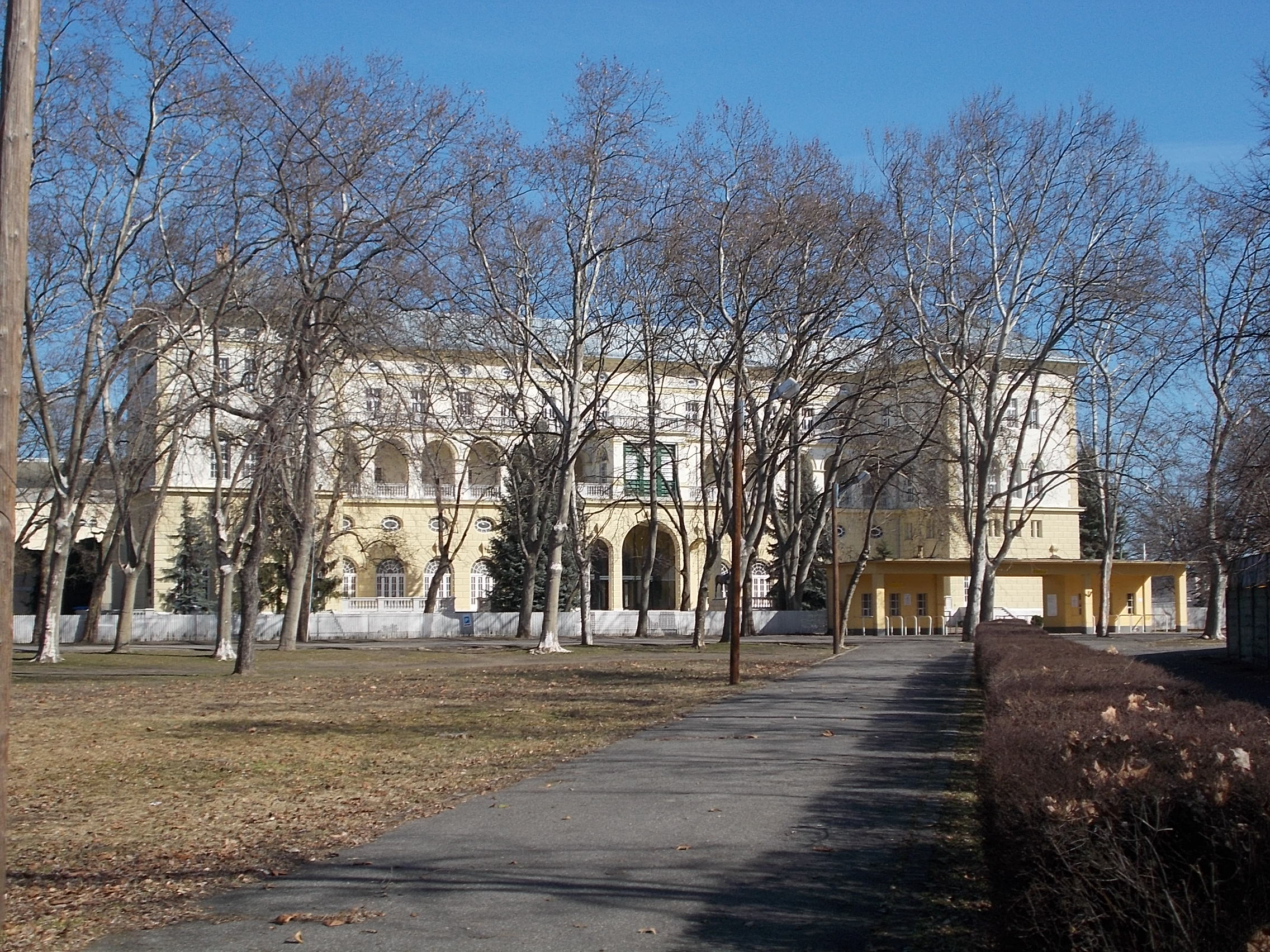 Galopp race track tribune. Listed building. - Albertirsai út, Ligettelek neighborhood, Budapest District X.